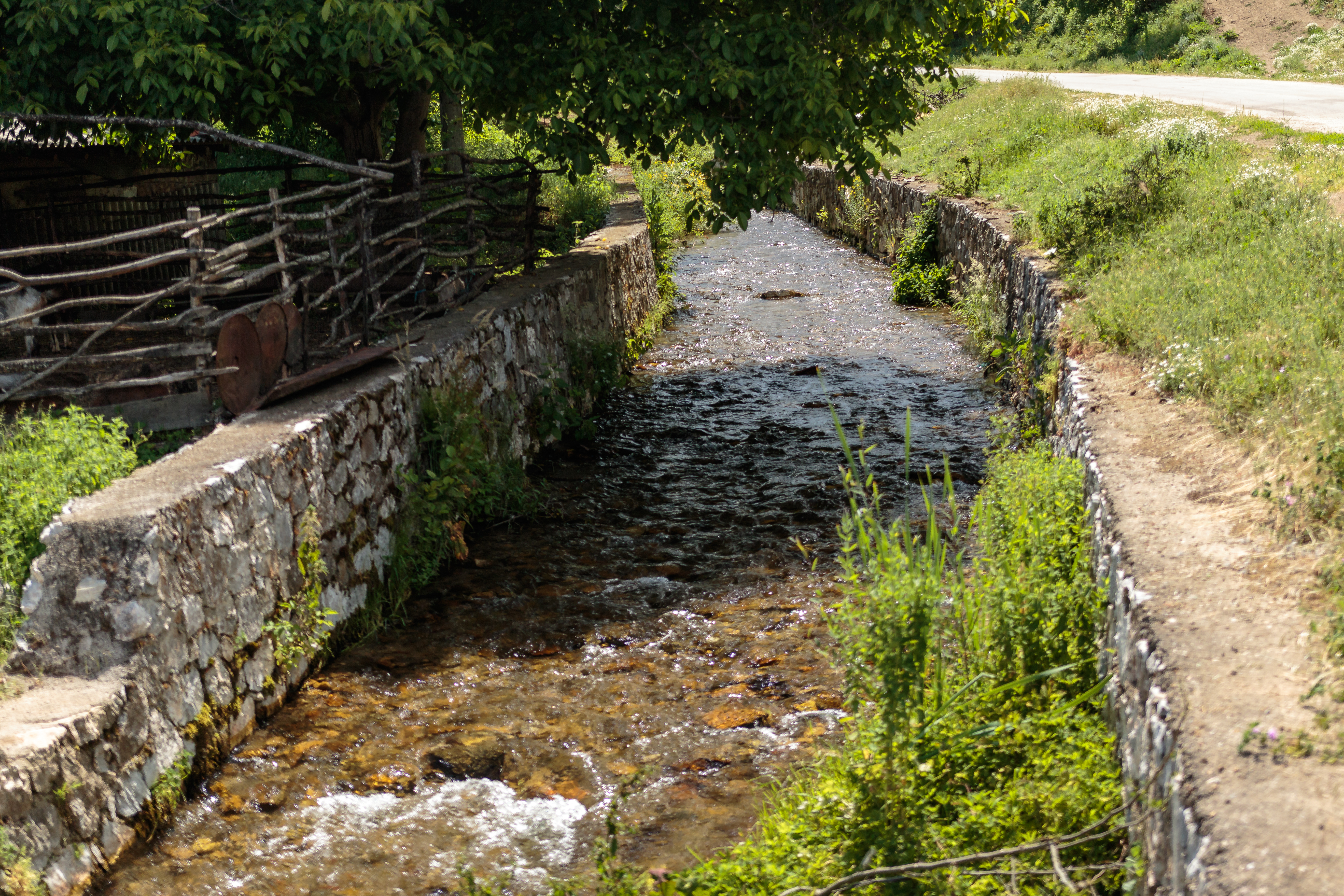 Obednik River